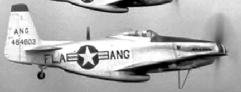 Florida ANG 159th Fighter Squadron - North American P-51H-10-NA Mustang 44-64603